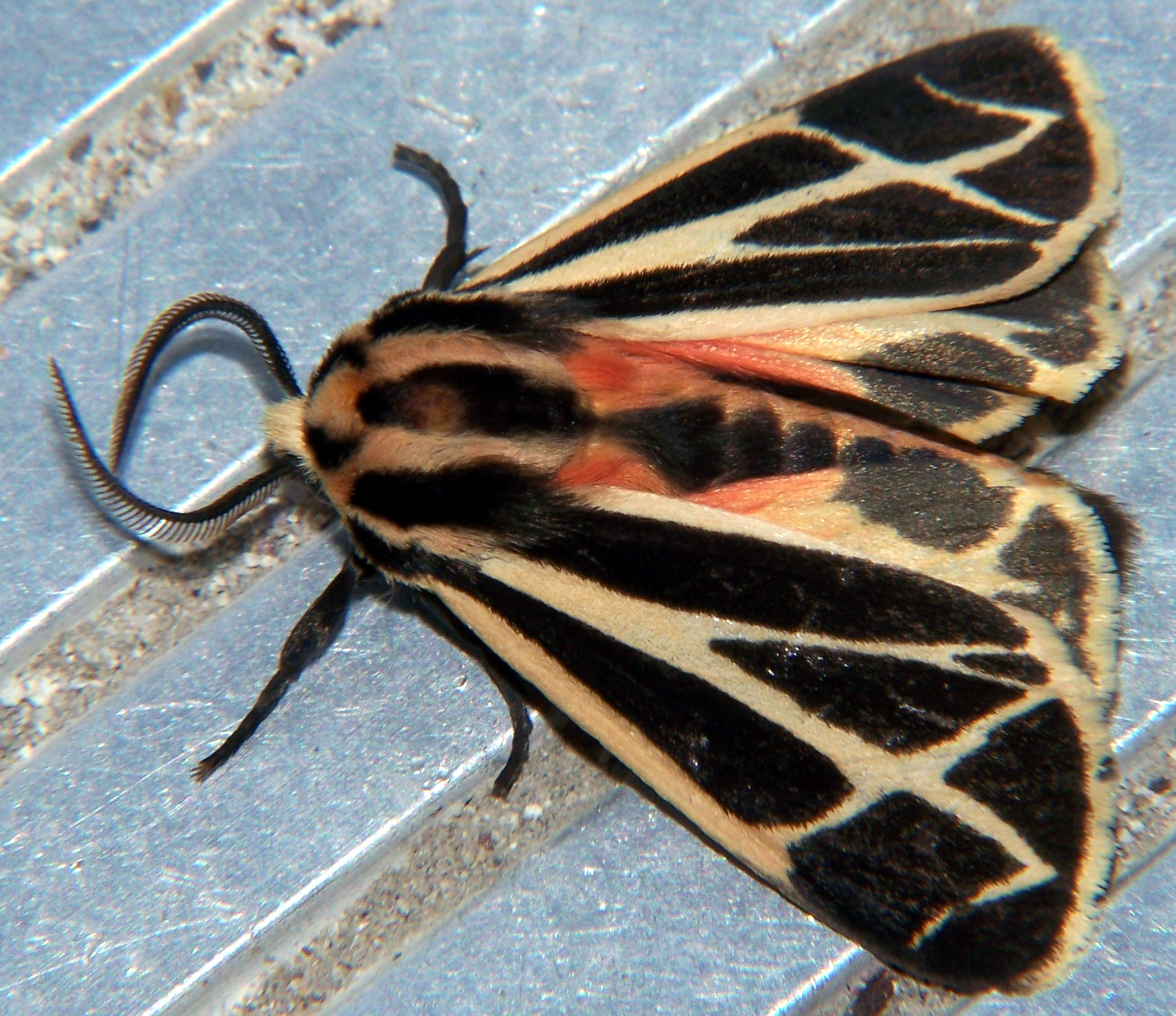 Adult Harnessed Tiger Moth, Apantesis phalerata.